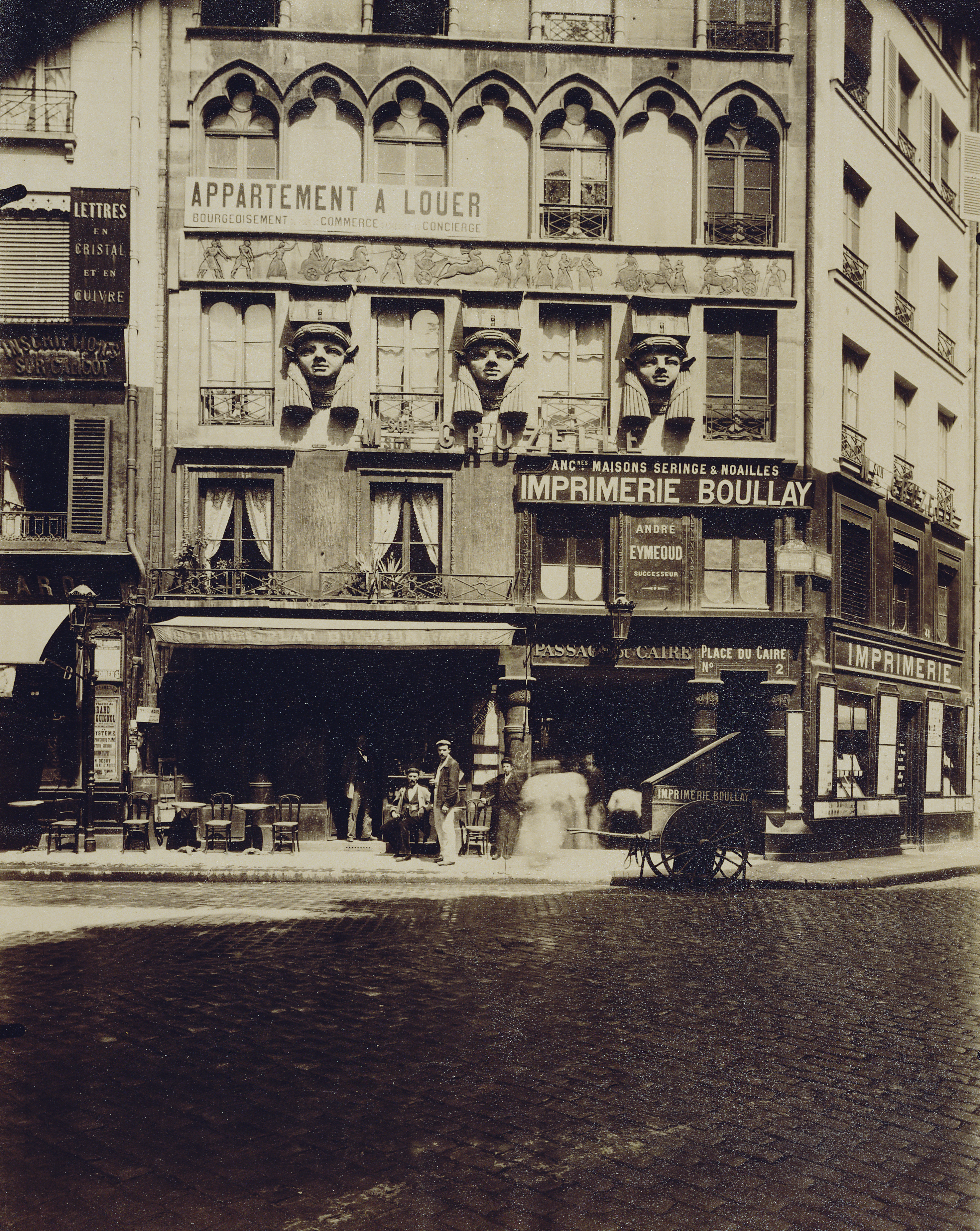 The large sphinx heads ornamenting this house, built in 1799, reveal the influence of Napoleon Bonaparte's recent Egyptian campaign. Other eclectic elements, such as the decorative frieze of Roman figures above the sphinxes and the vaguely Moorish arched trefoil windows on this building, also crept into urban architecture in Paris at this time. Eugène Atget revealed his interest in historic architecture in a letter describing the inventory of negatives that he hoped to sell to the École des Beaux-Arts: "I have amassed . . . artistic documents of fine civil architecture" from the 1500s through the 1800s, "old hotels, historic or curious houses, . . . fine facades." Inevitably, Atget also recorded bystanders in his urban photographs; they became fundamental elements of the final images. When taking this picture, Atget and his cumbersome tripod-mounted view camera clearly drew the attention of four men in front of the street-level restaurant.